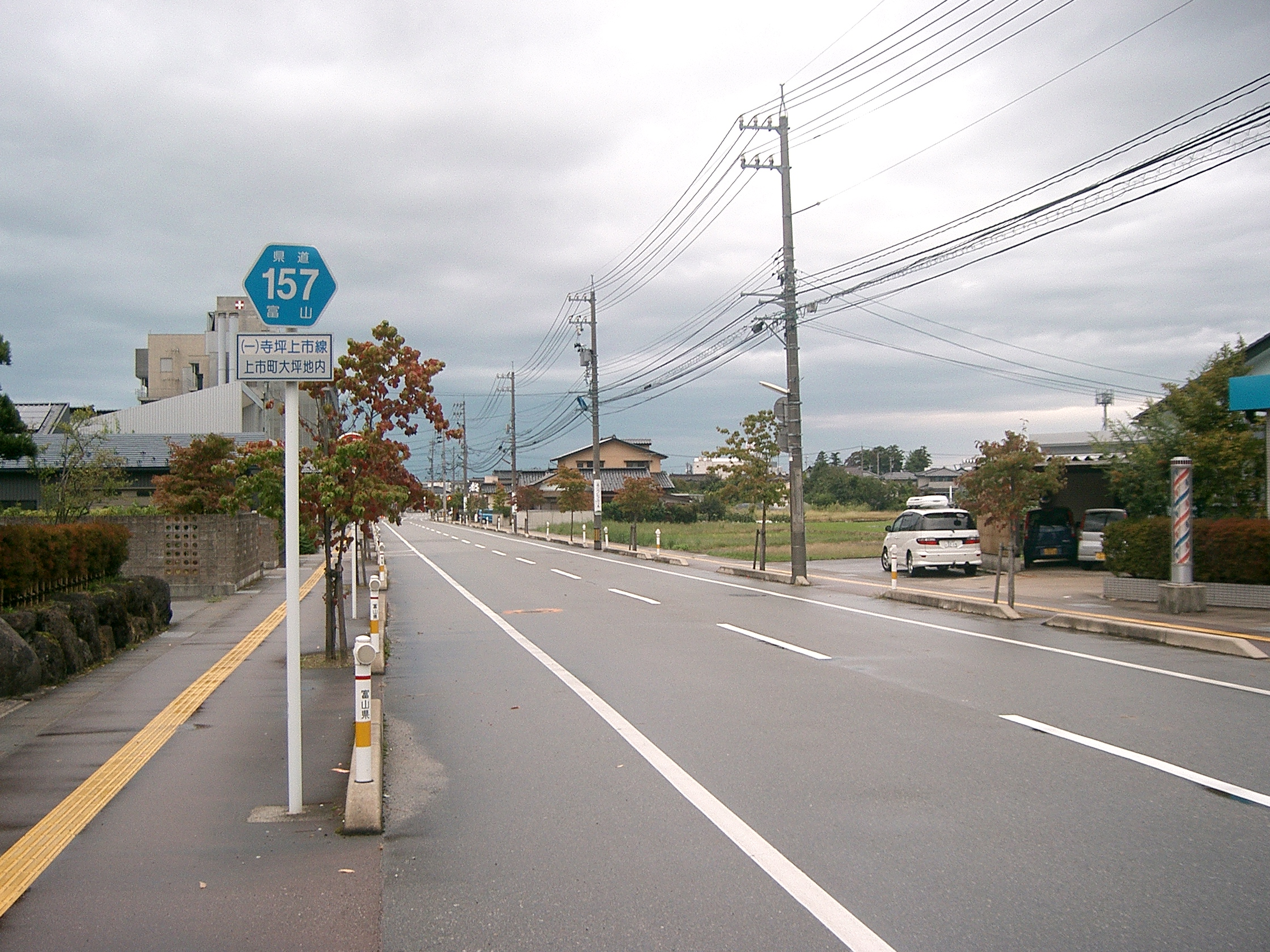 Toyama prefectural road 157 Teratsubo-Kamiichi line. Looking north from Yakubamae intersection, Kamiichi town.